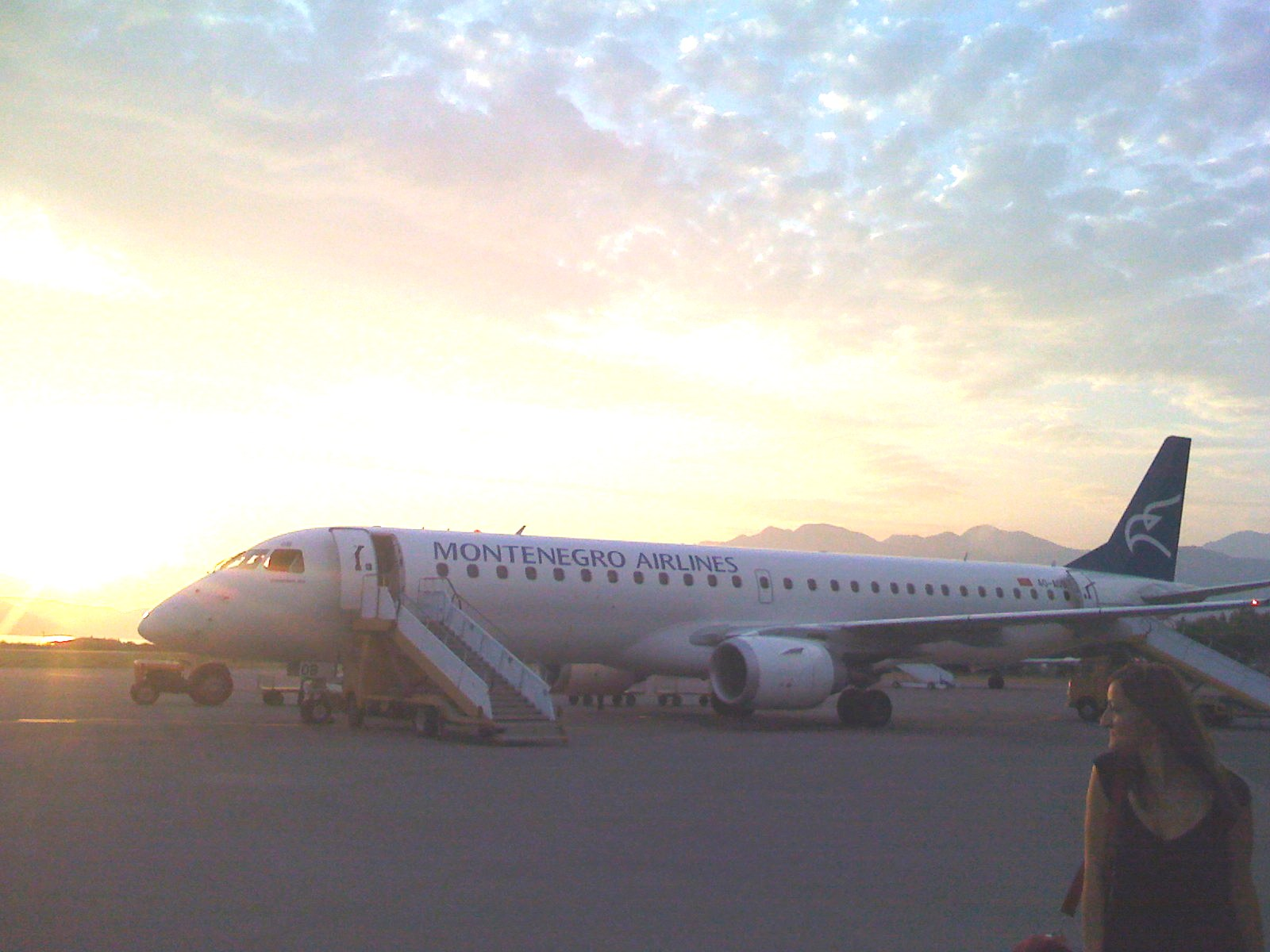 Montenegro Airlines Embraer at Tivat Airport